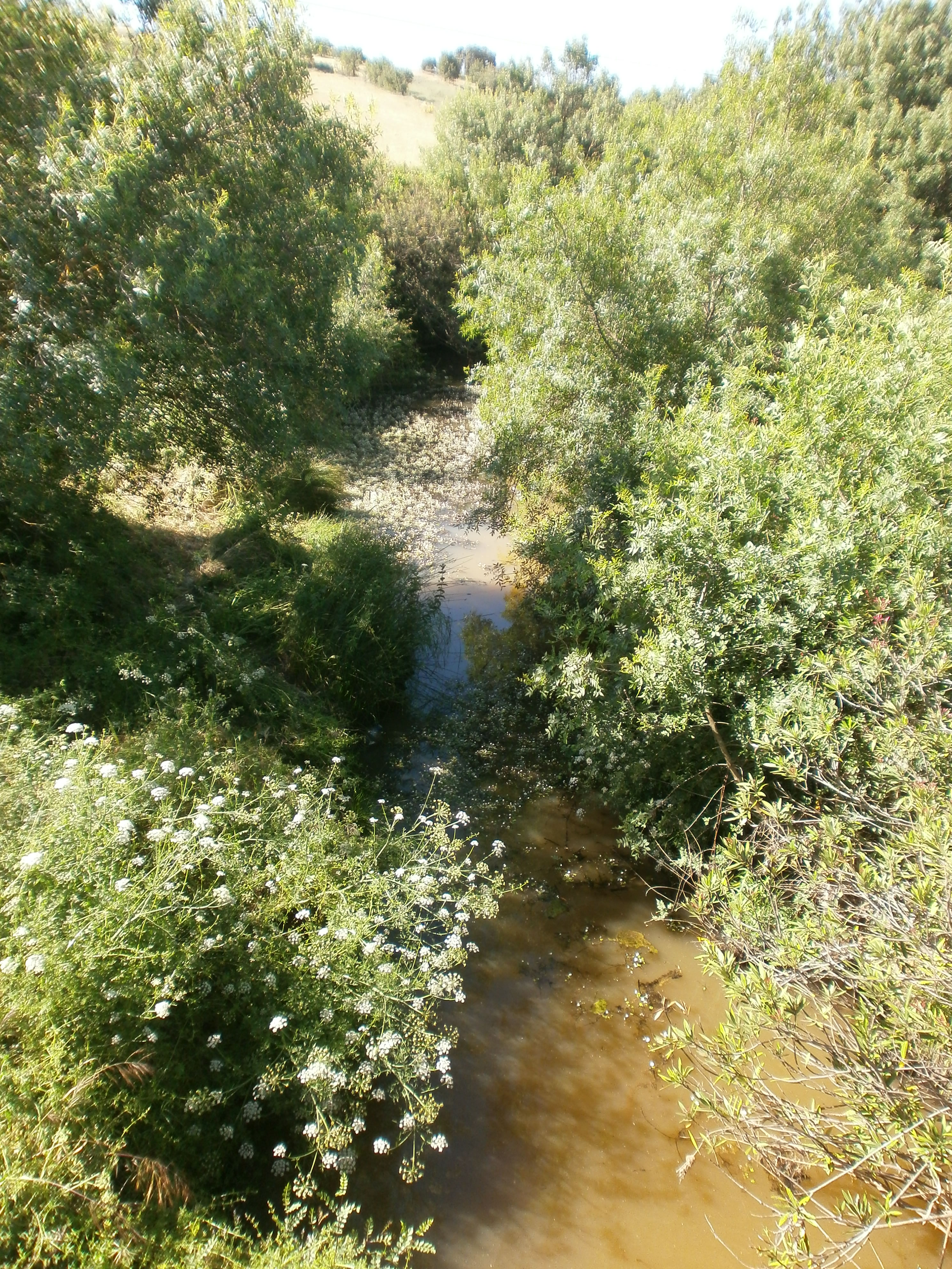 Río Zapatón